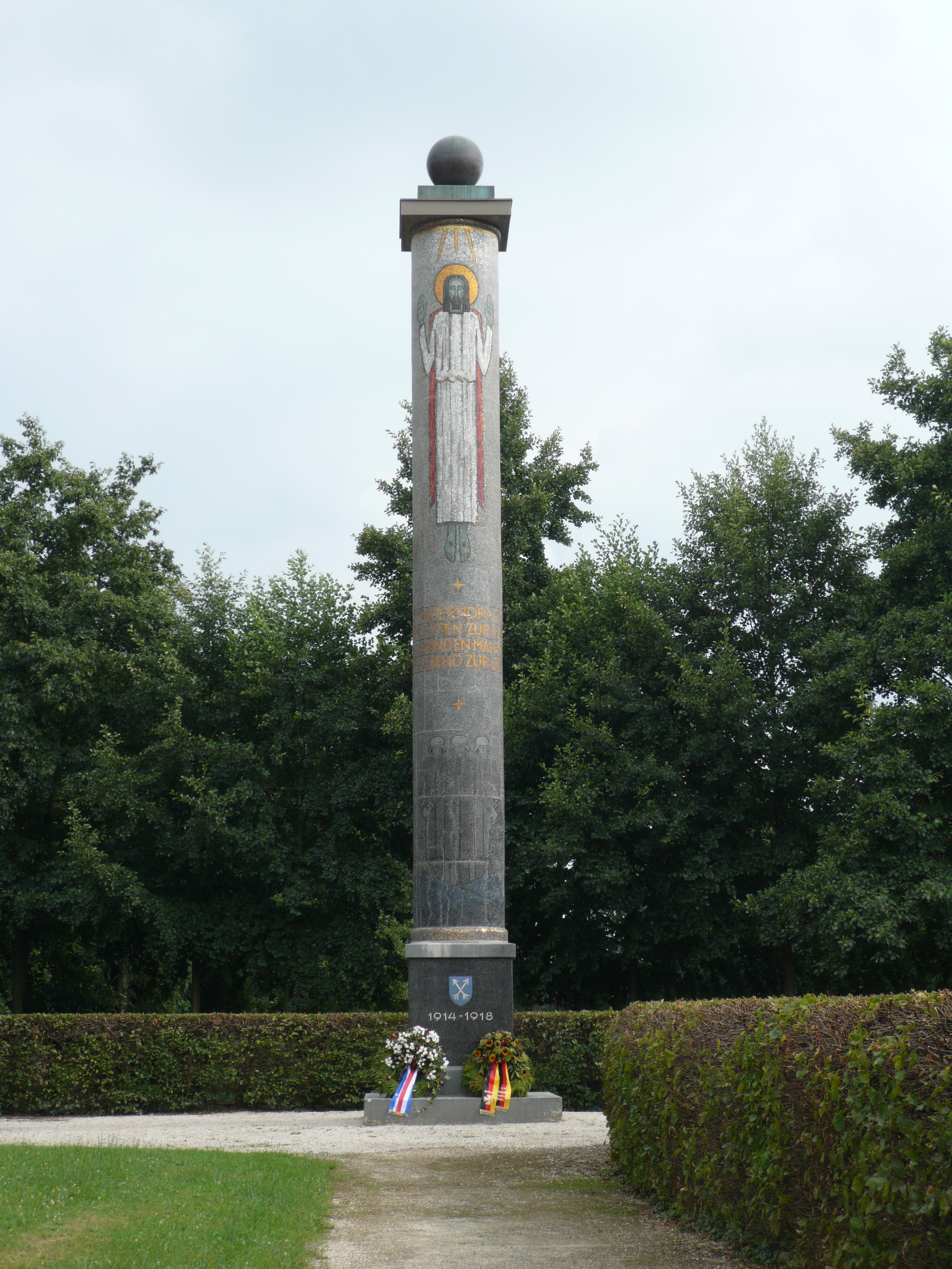 WW 1 Memorial in Oberursel, Germany near the Christ church.